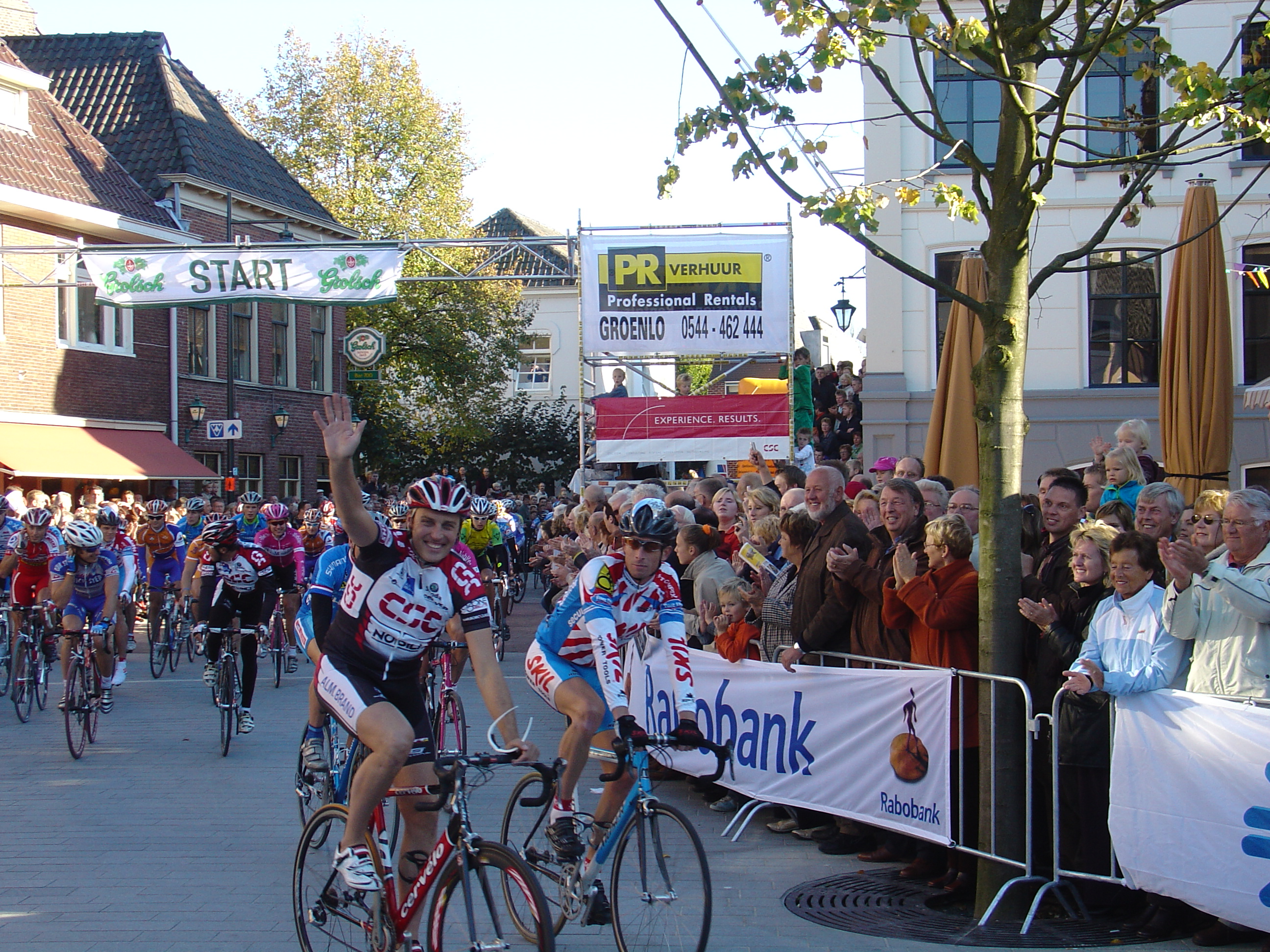 Tristan Hoffman (CSC at the time) quitting as professional cyclist, at his goodbye party in his hometown Groenlo, october 16 2005. Riding next to him is Bart Voskamp, who also quit cycling professionally at the same time.